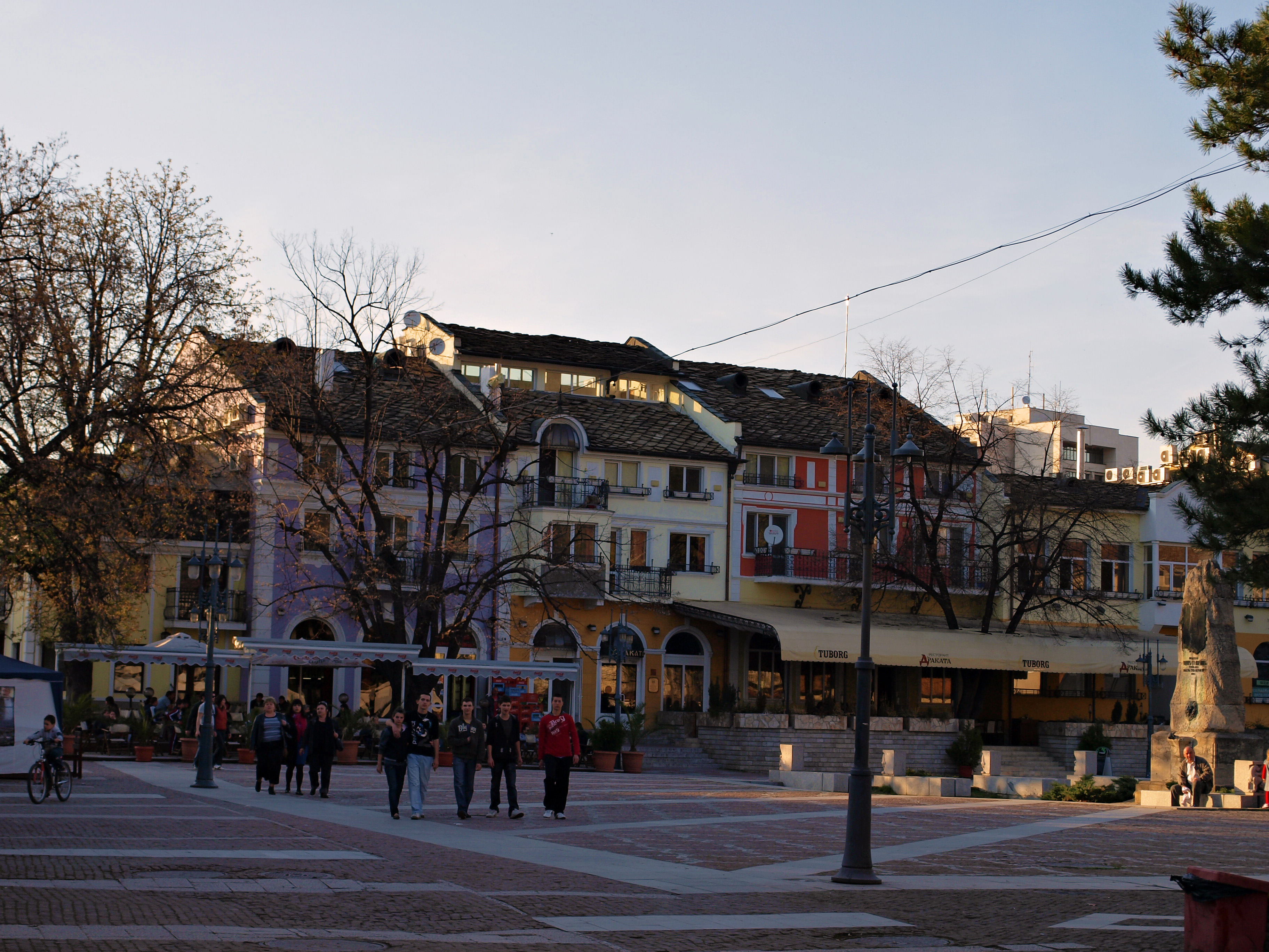 Street scene in Lovech, Bulgaria